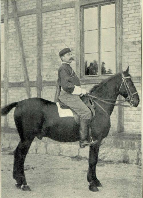 Josip Kušar 1838-1902), slovene politician and industrialist